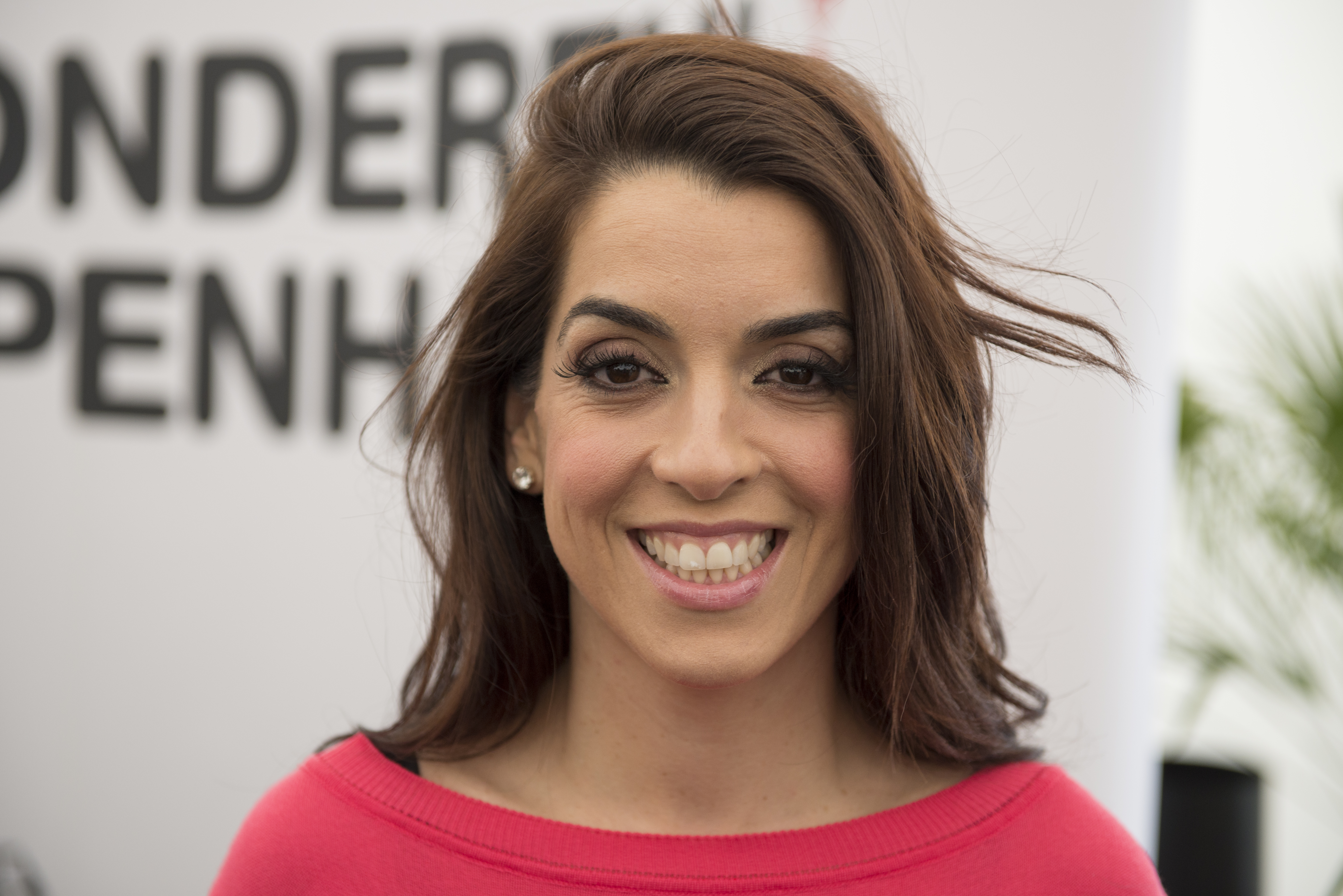 Ruth Lorenzo at a Meet & Greet during the Eurovision Song Contest 2014 Copenhagen. (Help translate this text)